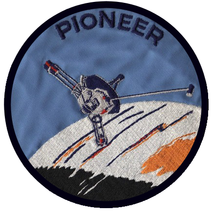 Pioneer 10 and Pioneer 11 mission patch